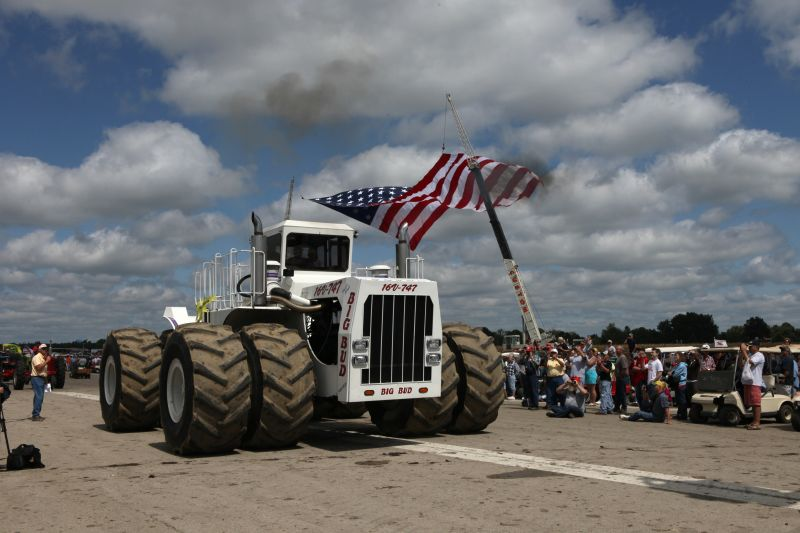 The world's largest farm tractor (largest regarding hp), the Big Bud 747 (16-V 747), built in 1977